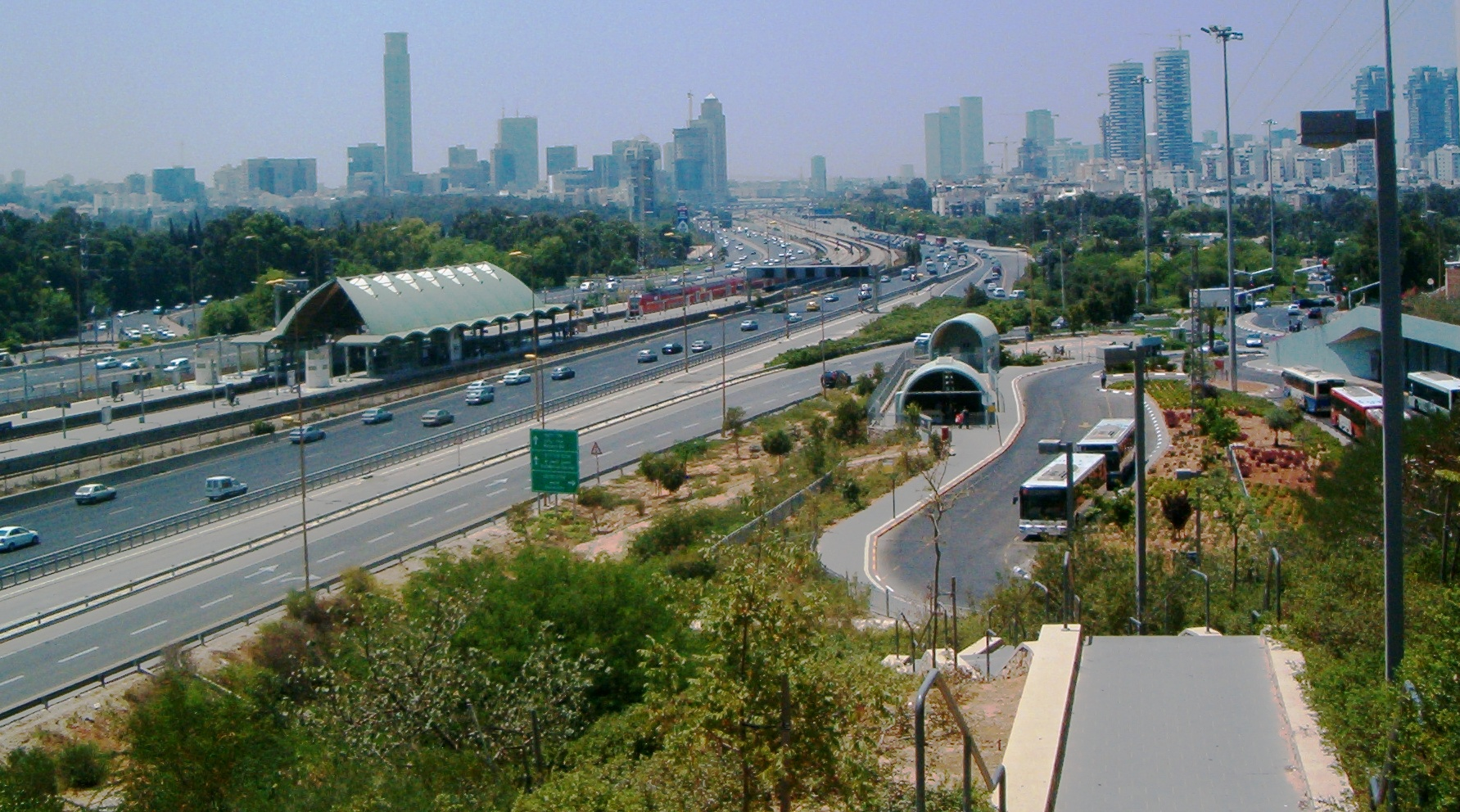 In left, Ayalon Highway and train is entering to Tel Aviv University railway station. In right, Tel Aviv University station entrance and bus terminal of Dan bus company. In background you can see the skyscrapers of Tel Aviv and Ramat Gan